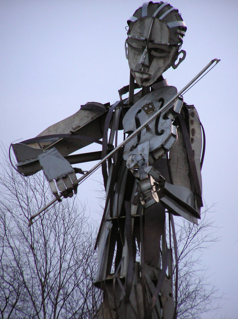 The fiddler, Strabane. Part of "Let the dance begin" beside the roundabout in Strabane near the Lifford turn-off.